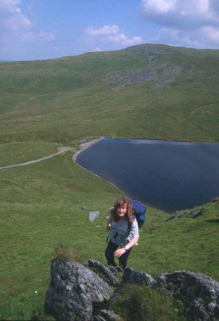 On Pumlumon Fach. Ascending steep grassy slopes above Llyn Llygad Rheidol, on the northern side of Pumlumon.